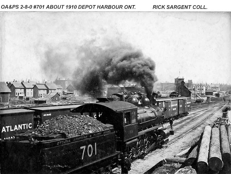 Ottawa Arnprior & Parry Sound Railway engine #701 was a Compound 2-8-0 built by Baldwin Locomotive Works in August 1899. The engine is shown in Depot Harbour, the western end of the line, just outside Parry Sound. Given the background, the photo is likely facing east-northeast.